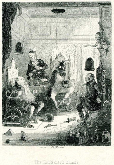 Scene of the enchanted chairs from Ainsworth's Auriol